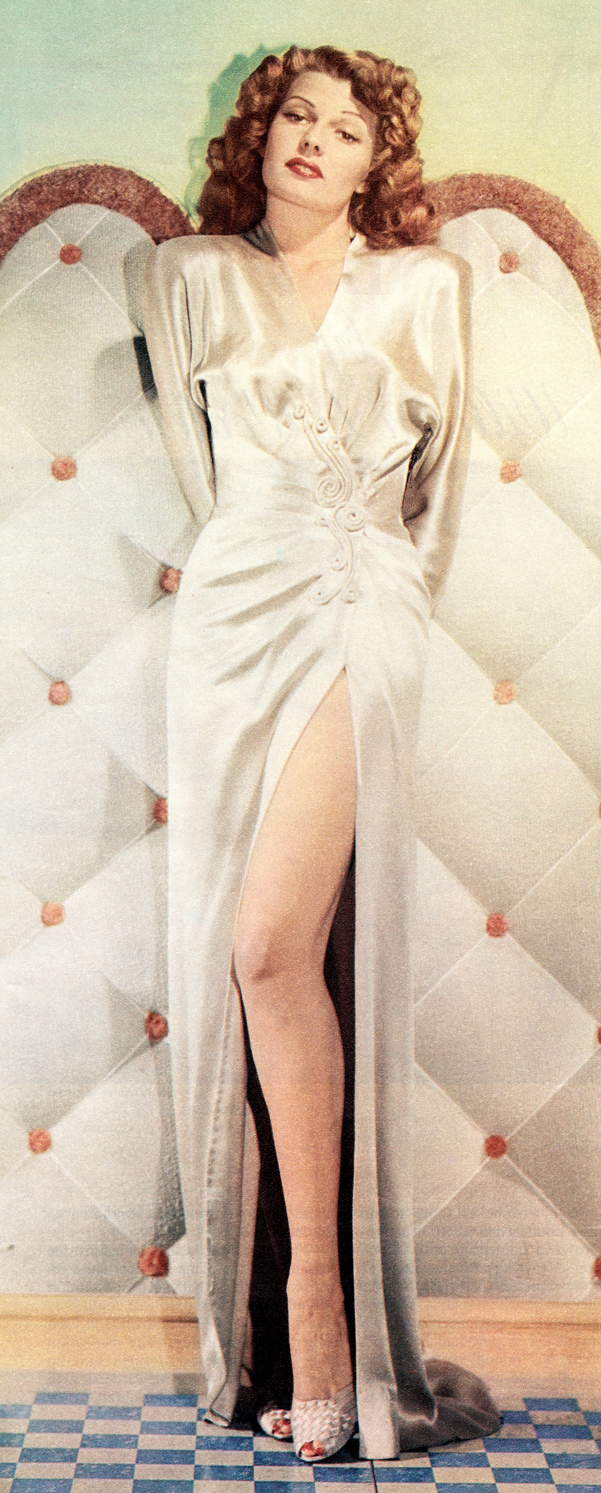 Photograph of Rita Hayworth, subject of the article "Sweetheart of the A.E.F.", a feature story by Jerome Beatty appearing in The American Magazine (pp. 42–43, 72–74)